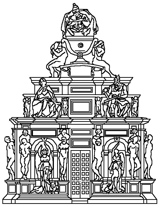 Reconstruction of the project of Michelangelo for the Julius II Tomb dated 1505 (1st project). Inspired to reconstruction of F. Russoli, 1952